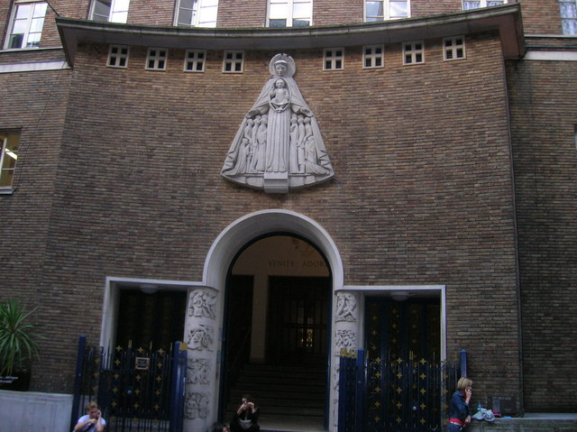 Notre Dame de France, Leicester Place WC2